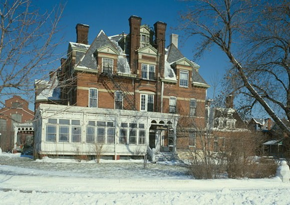 Photo of a brick building